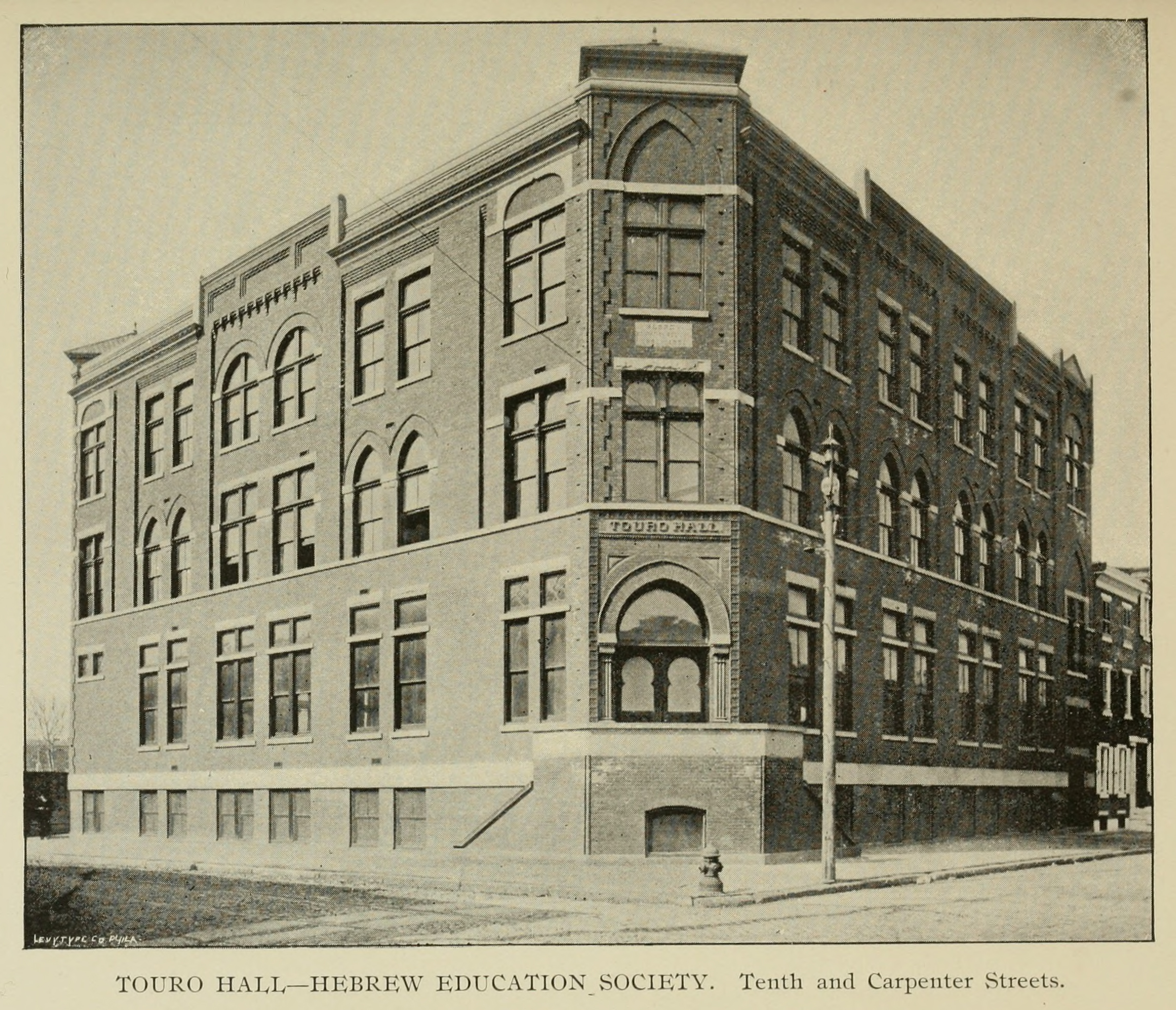 Touro Hall - Hebrew Education Society, Tenth and Carpenter Streets (1899). Named after Judah Touro. From Fifty Years' Work of the Hebrew Education Society of Philadelphia : 1848-1898 by Hebrew Education Society (Philadelphia, Pa., 1899)